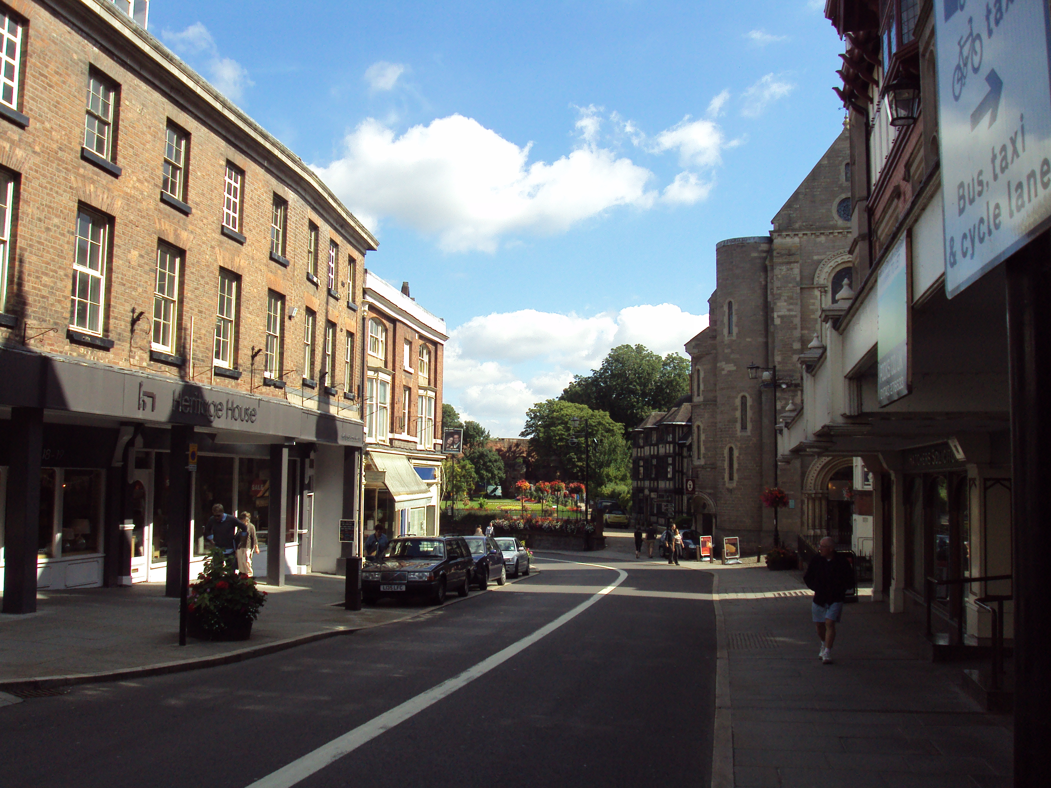 Castle Street, Shrewsbury, England.